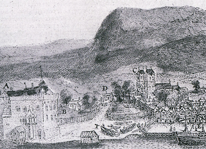 Scholeusstikket made in 1580, cropped to show Mariakirken (St Mary's)